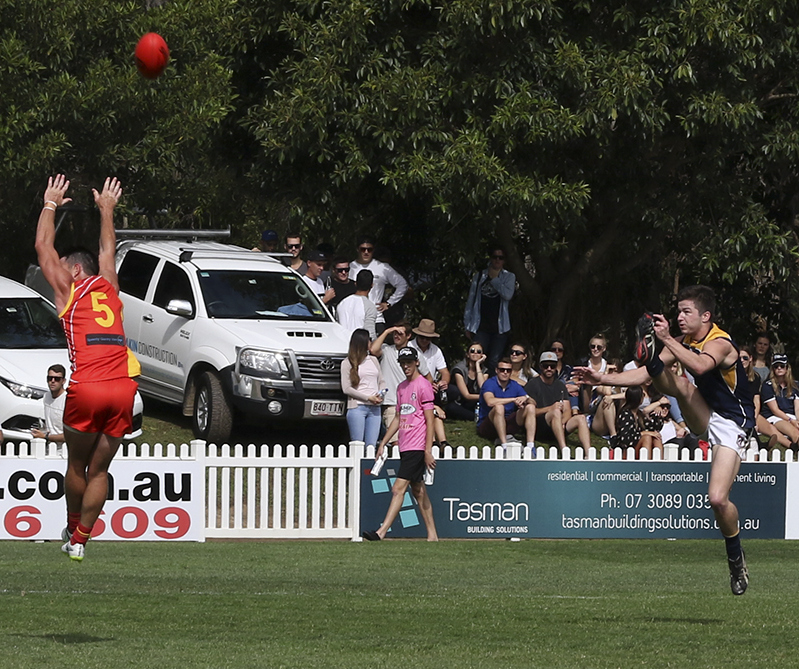 Australian rules footballer takes a set shot